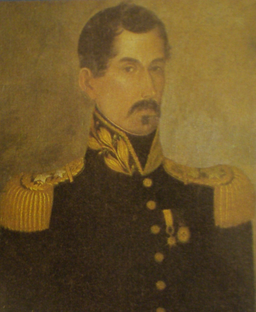 Portrait of Carlos Soublette